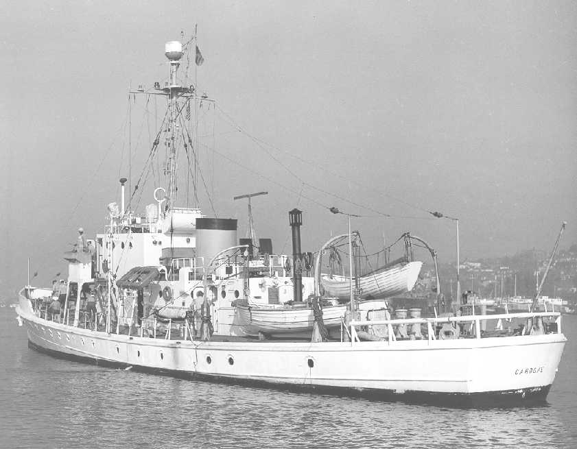 USCGC Cahoone (WSC-131; WMEC-131); no caption/number; photographer/date unknown. Cahoone was in service from 1927 through 1968. Note the crowded deck space of these small medium endurance cutters. They were powered by two General Motors diesel engines that drove two three-bladed propellers to a top speed of 12.0 knots. Designed to enforce Prohibition on the high seas, well out from shore where "mother ships" waited to offload their alcoholic cargo to smaller speed boats, they nevertheless proved to be adaptable to all of the Coast Guard's missions during their long careers.